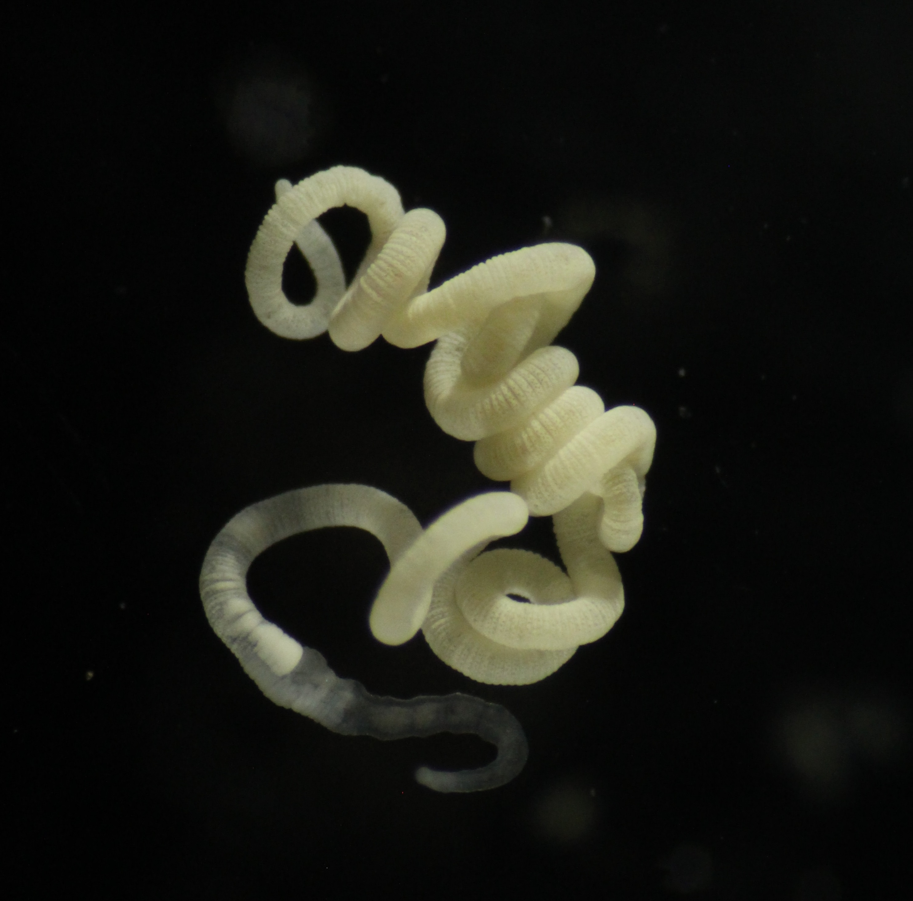 Gutless worm Olavius algarvensis (Oligochaeta:Tubificidae) uses symbiotic bacteria as their source of food. These bacteria live under the cuticle and are responsible for the bright white appearance of the worms.